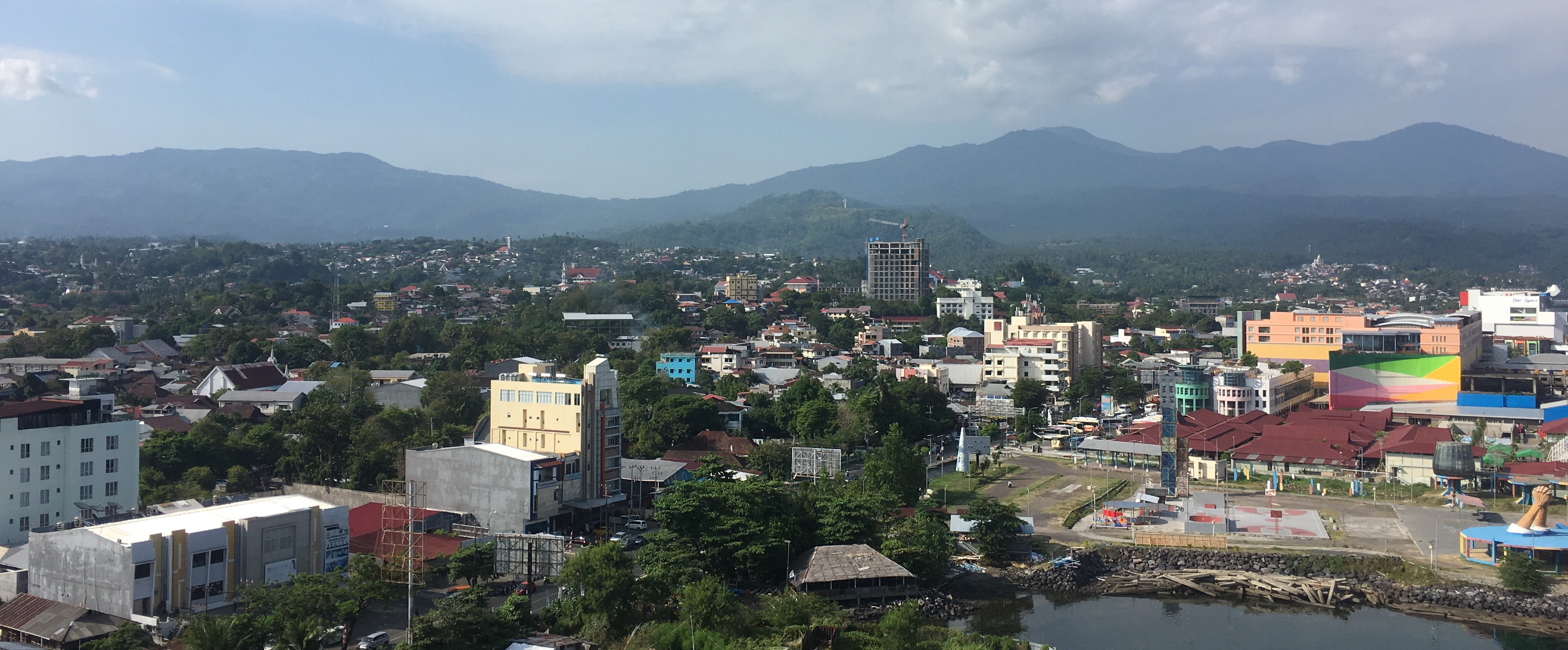 View of Manado close to the waterfront, facing South-Southwest